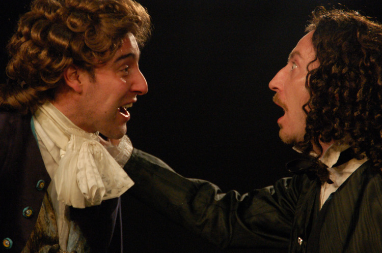 Giant Olive Production